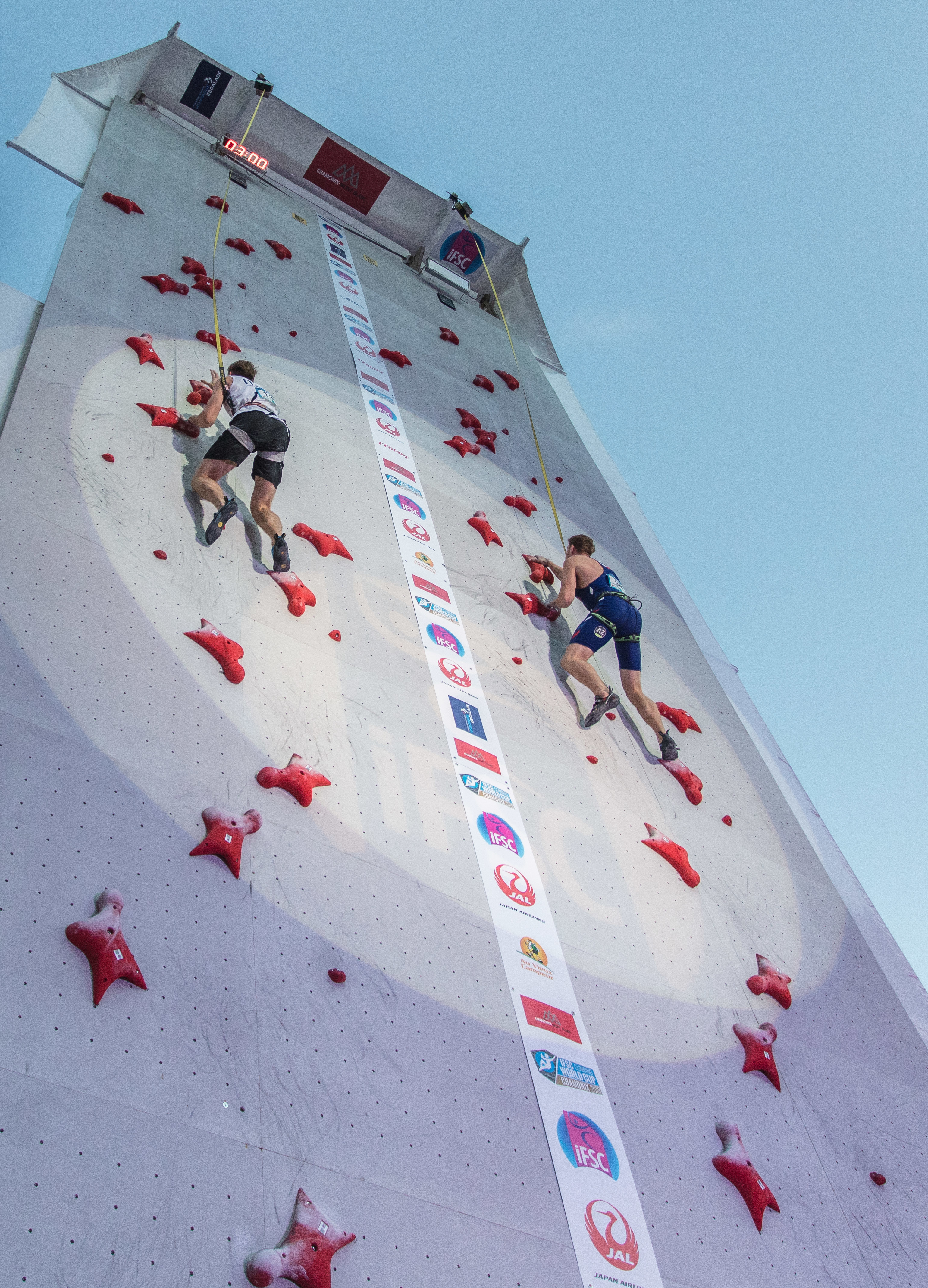 Jan Kriz at Chamonix 2018